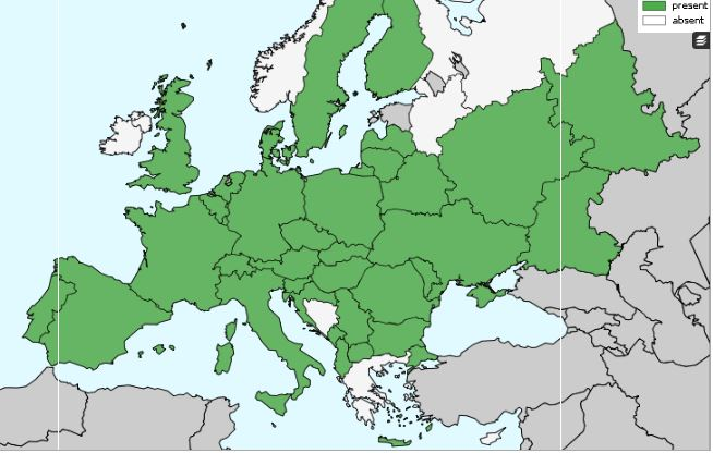 Rasprostranjenje vrste u Evropi (Fauna Europaea)